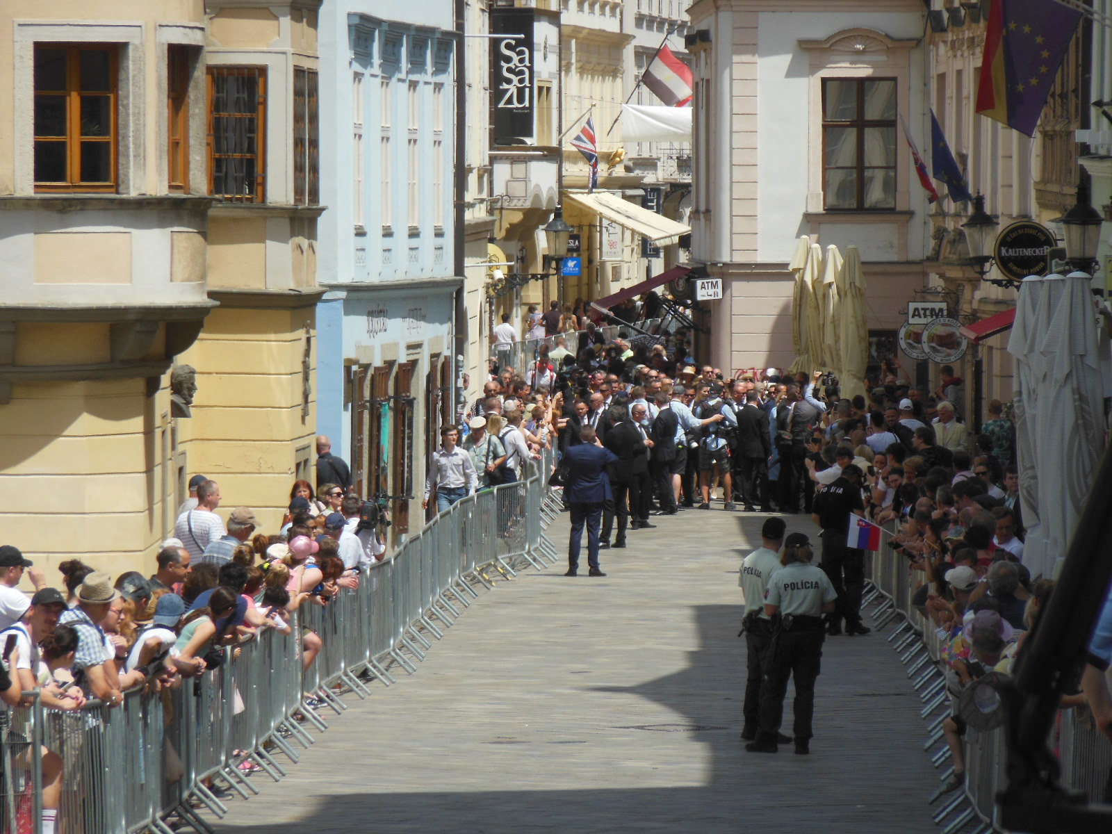 The new president walking among the people on Panská Street in Bratislava during the Presidential Inauguration of Zuzana Čaputová on 15 June 2019.